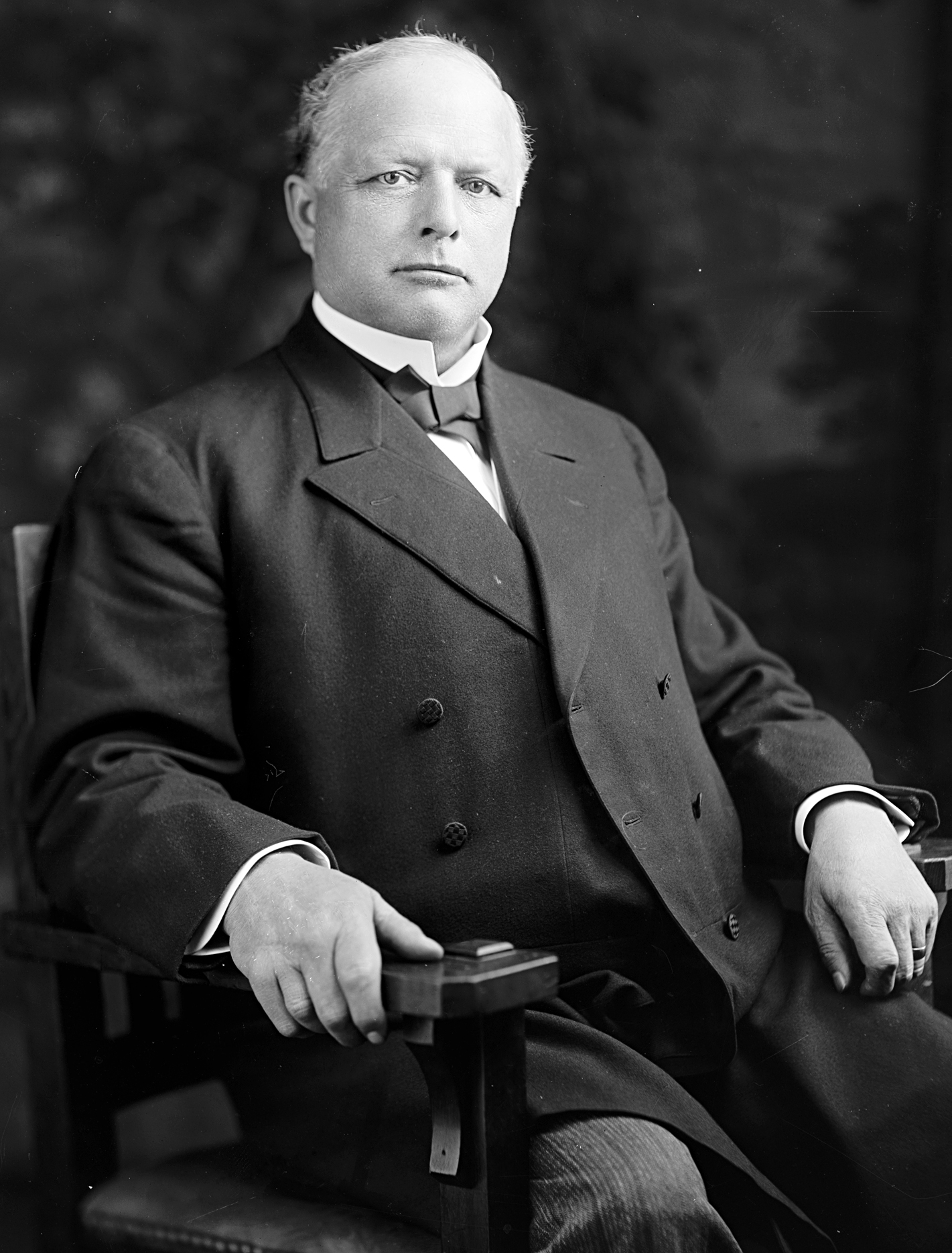 Cyrus Cline, US Representative from Indiana